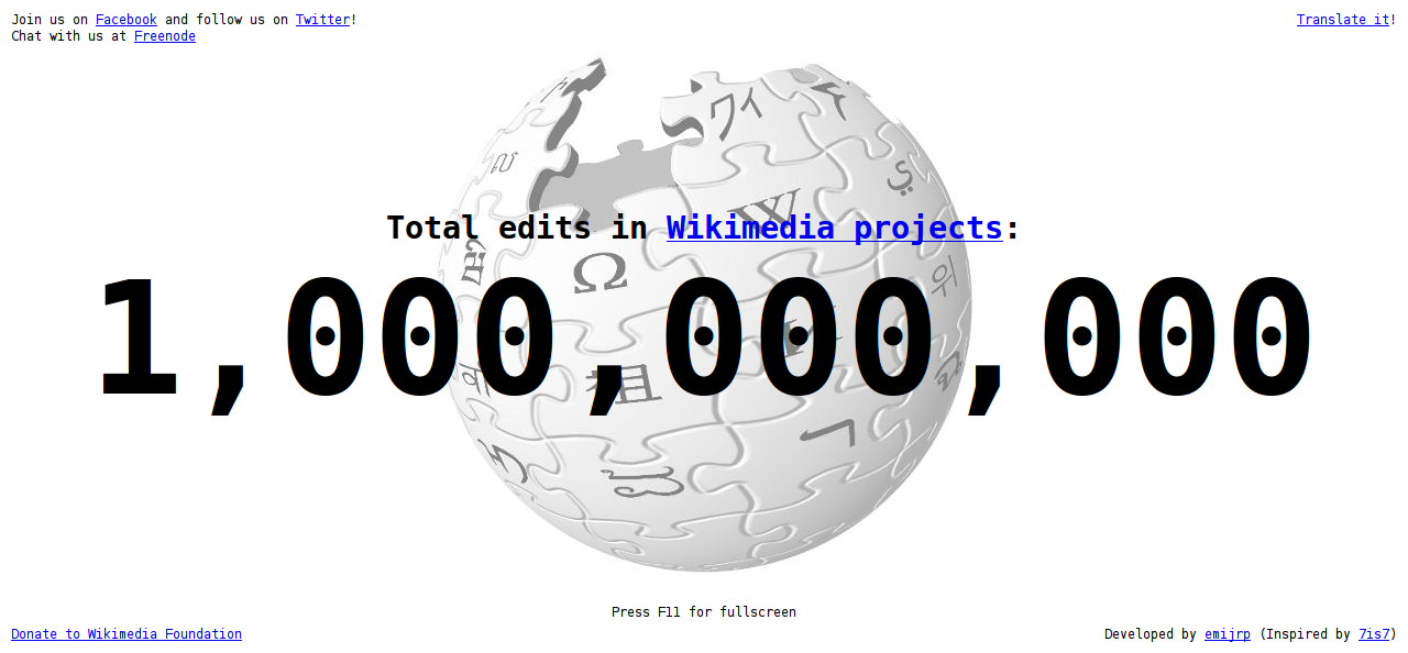 Wikimedia projects edit counter screenshot.